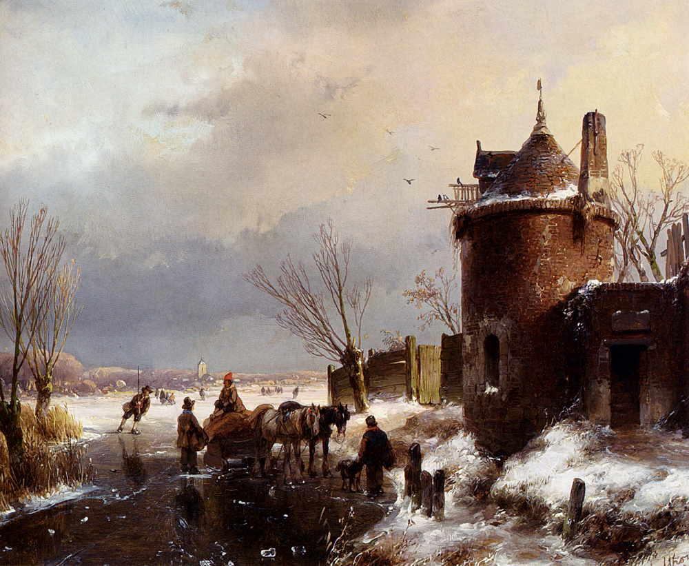 Figures With A Horse Sledge On The Ice, A Town In The Distance